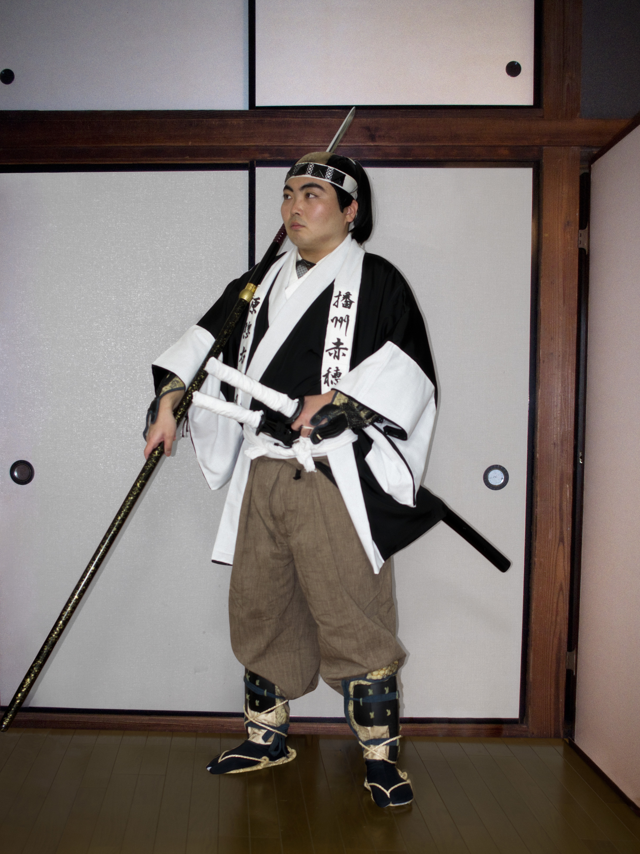 Akoroshi(Forty-seven Ronin) in assault equipments.